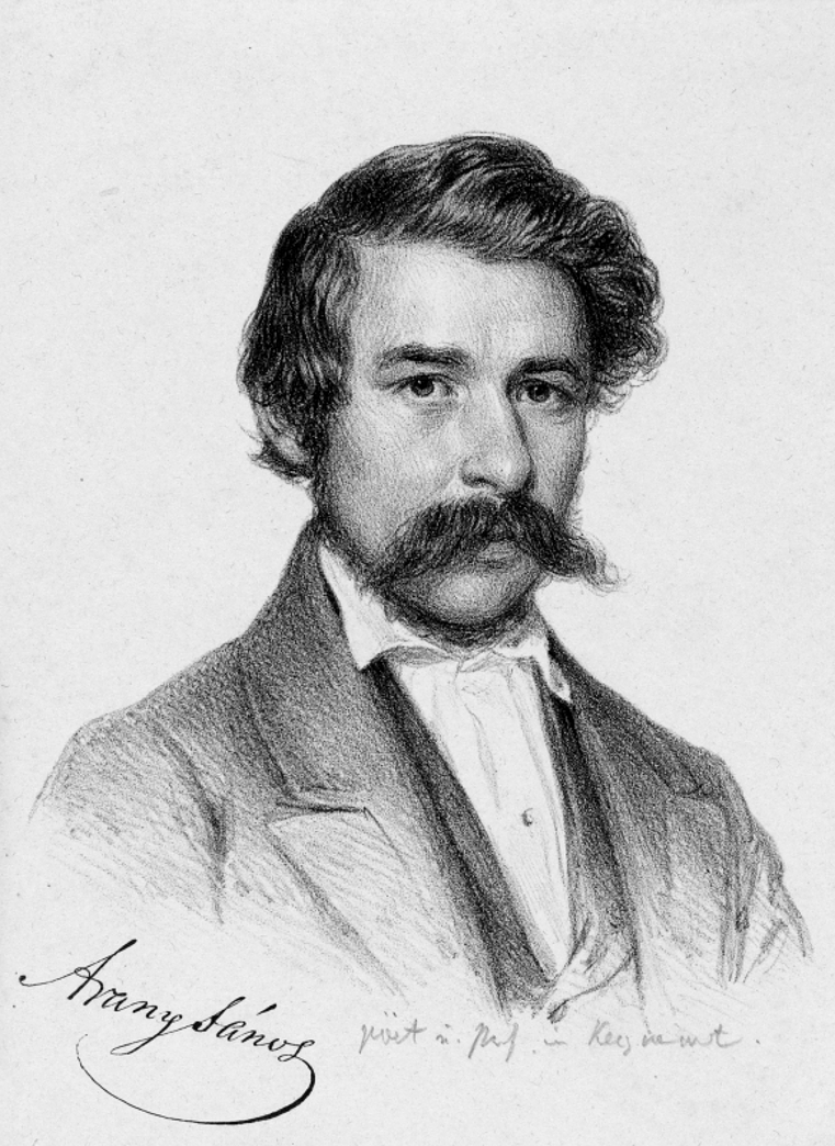 Arany János portré